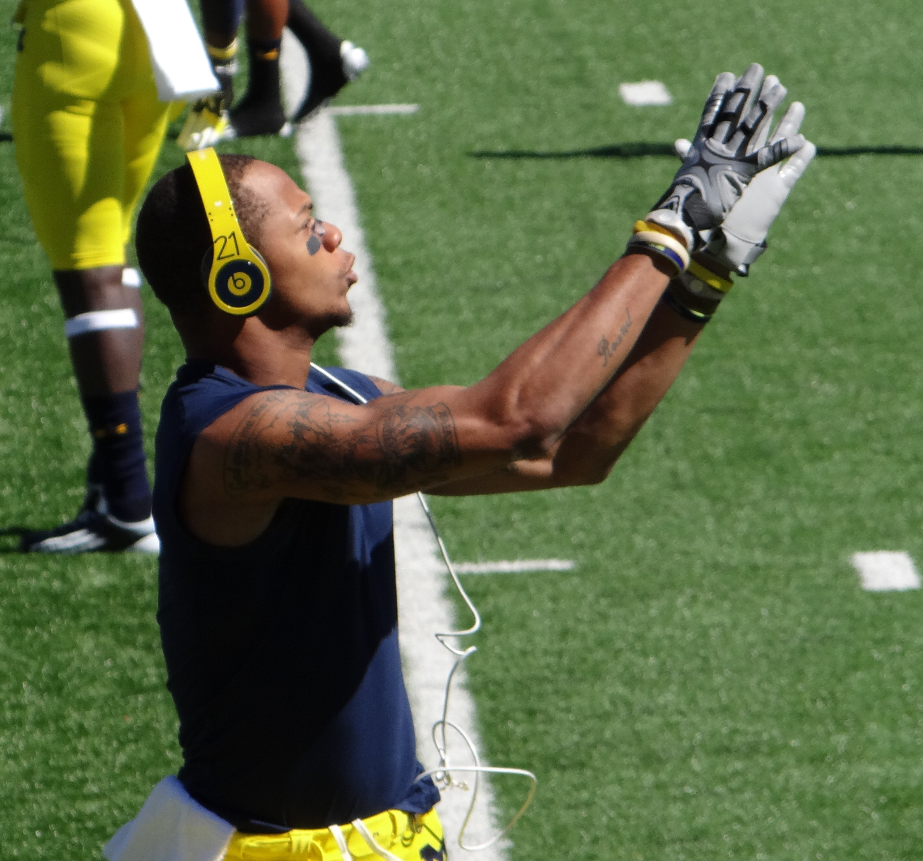 Michigan wide receiver Roy Roundtree